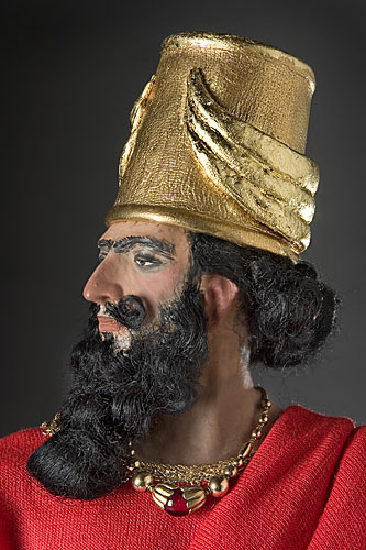 Historical Mixed Media Figure of Assyrian King Assurbanipal produced by artist/historian George S. Stuart and photographed by Peter d'Aprix. This image, from the George S. Stuart Gallery of Historical Figures® archive ( is provided for all uses with appropriate attribution. Any derivatives must be shared in the same manner. Contributor mharrsch is webmaster for the gallery site.